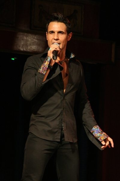 Chico Slimani on stage, May 2007